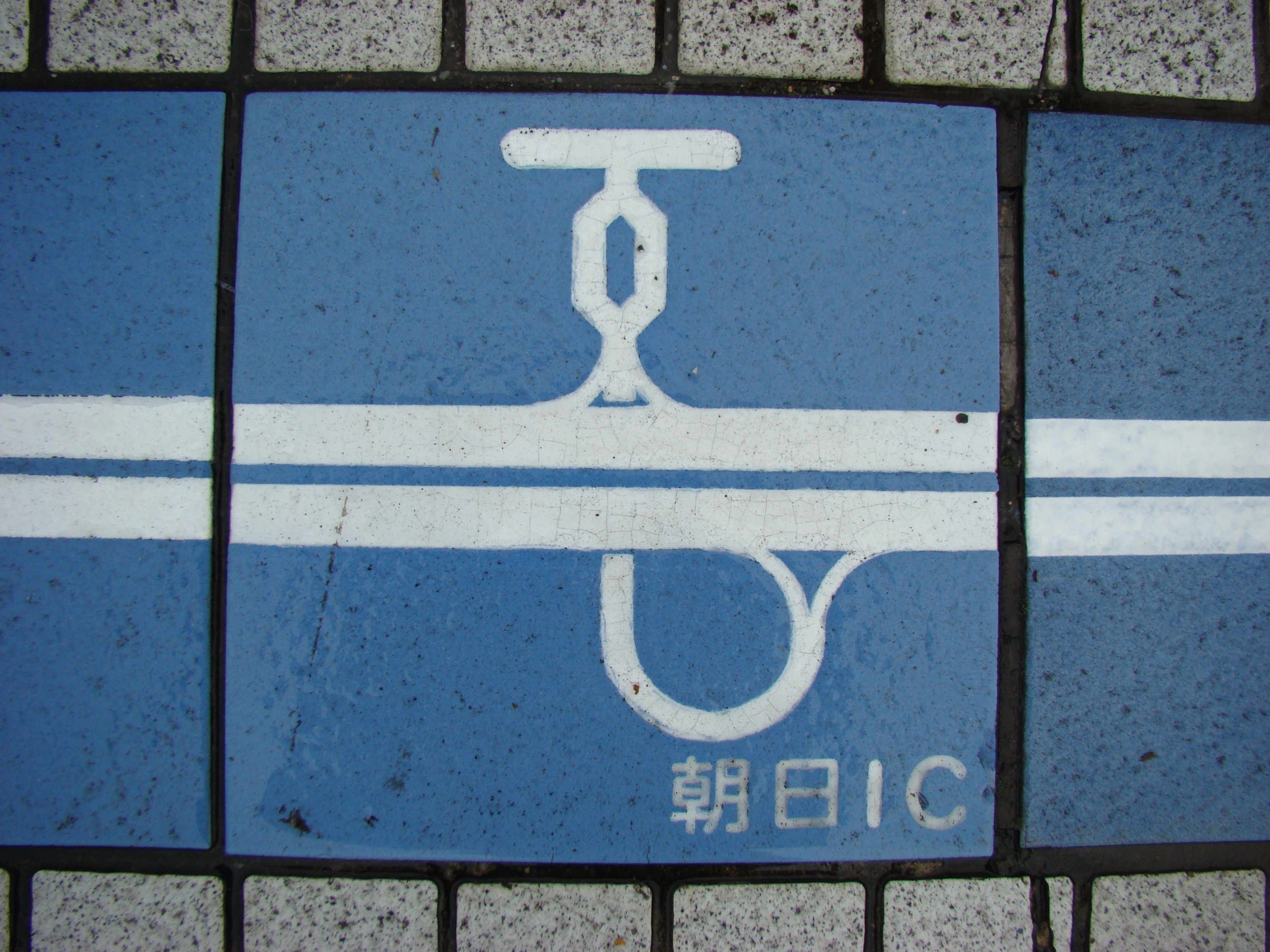 The tile which designed a shape of the Asahi Interchange（Hokuriku Expressway）（There is this tile in Hokuriku Expressway Nadachi-Tanihama Service Area.）. Place - Chayagahara,Joetsu City,Niigata Prefecture,Japan Date - August 9, 2009 Format - JPEG, 3264x2448pixel, 24bit colors. Photographer - NALA Wiki (talk)